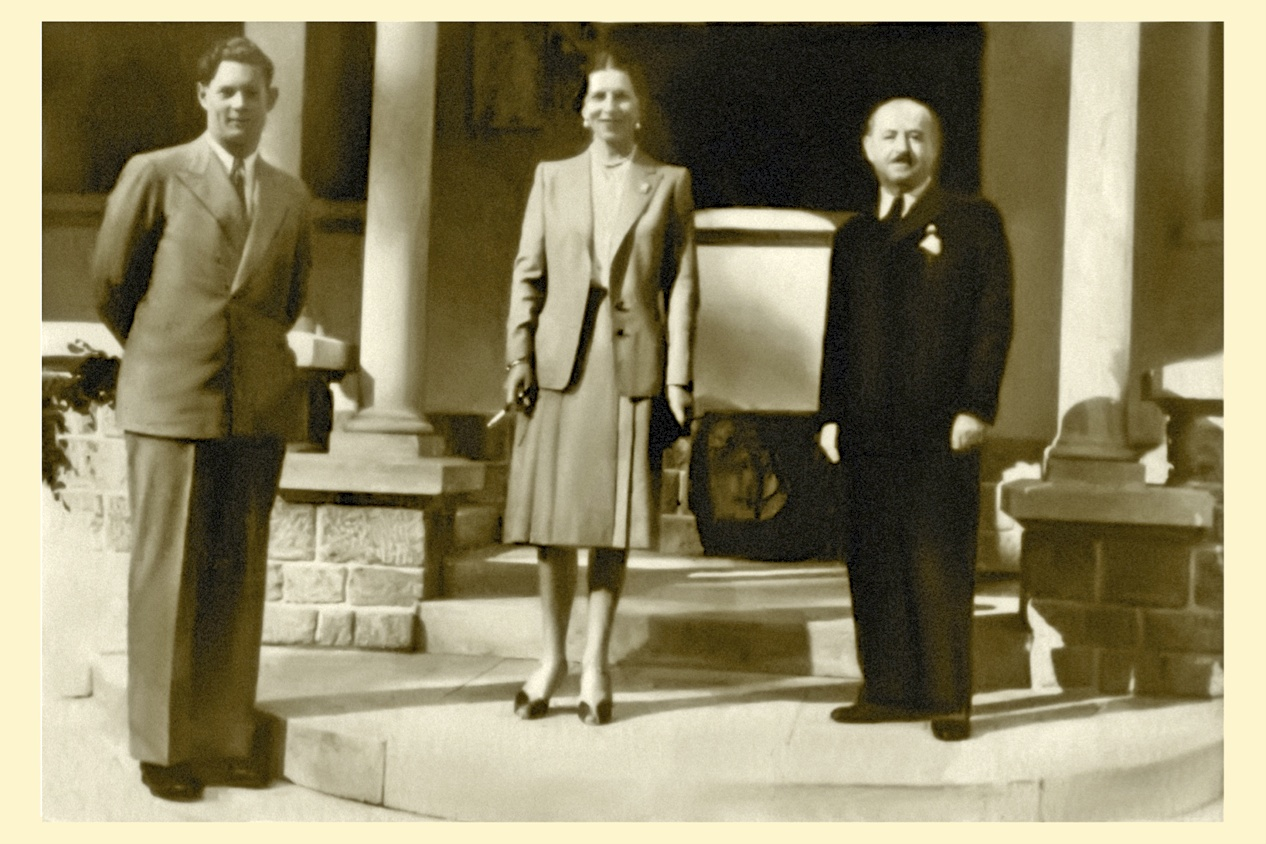 Picture of King Michael I of Romania, Queen Mother Helen of Romania with their ophthalmologist Nicolae Blatt; picture taken in front of Foisor Palace, in Sinaia, Romania